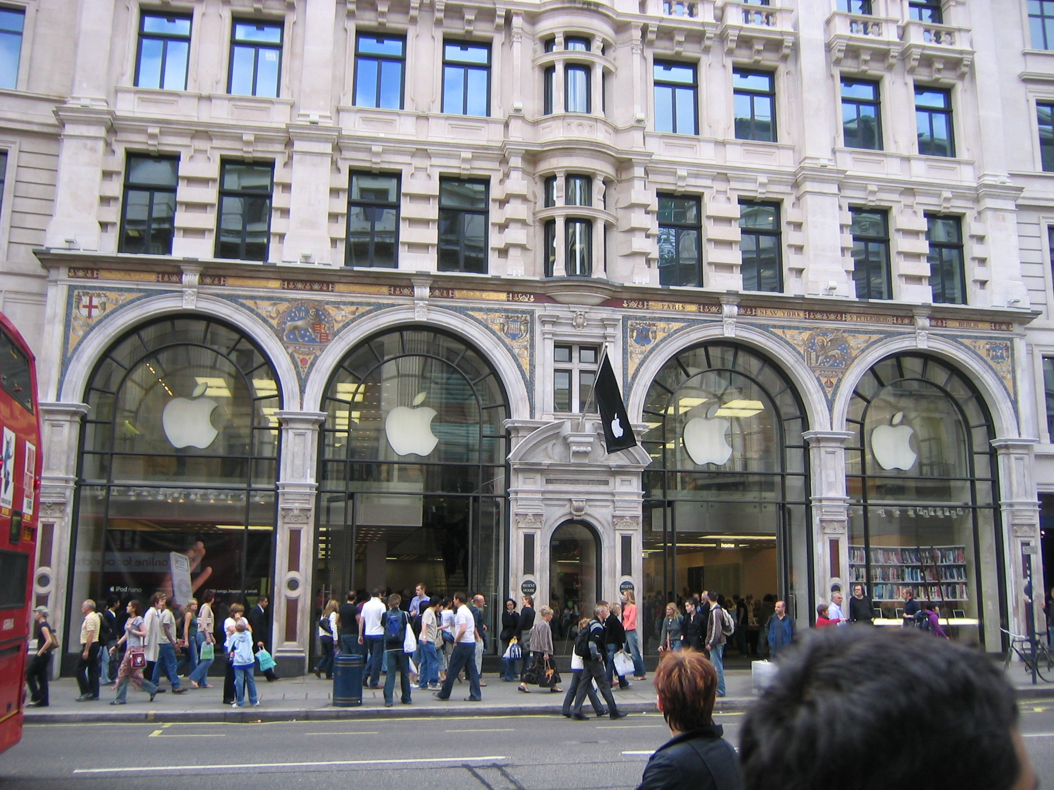 Apple Store, Regent Street, London, UKApple Store